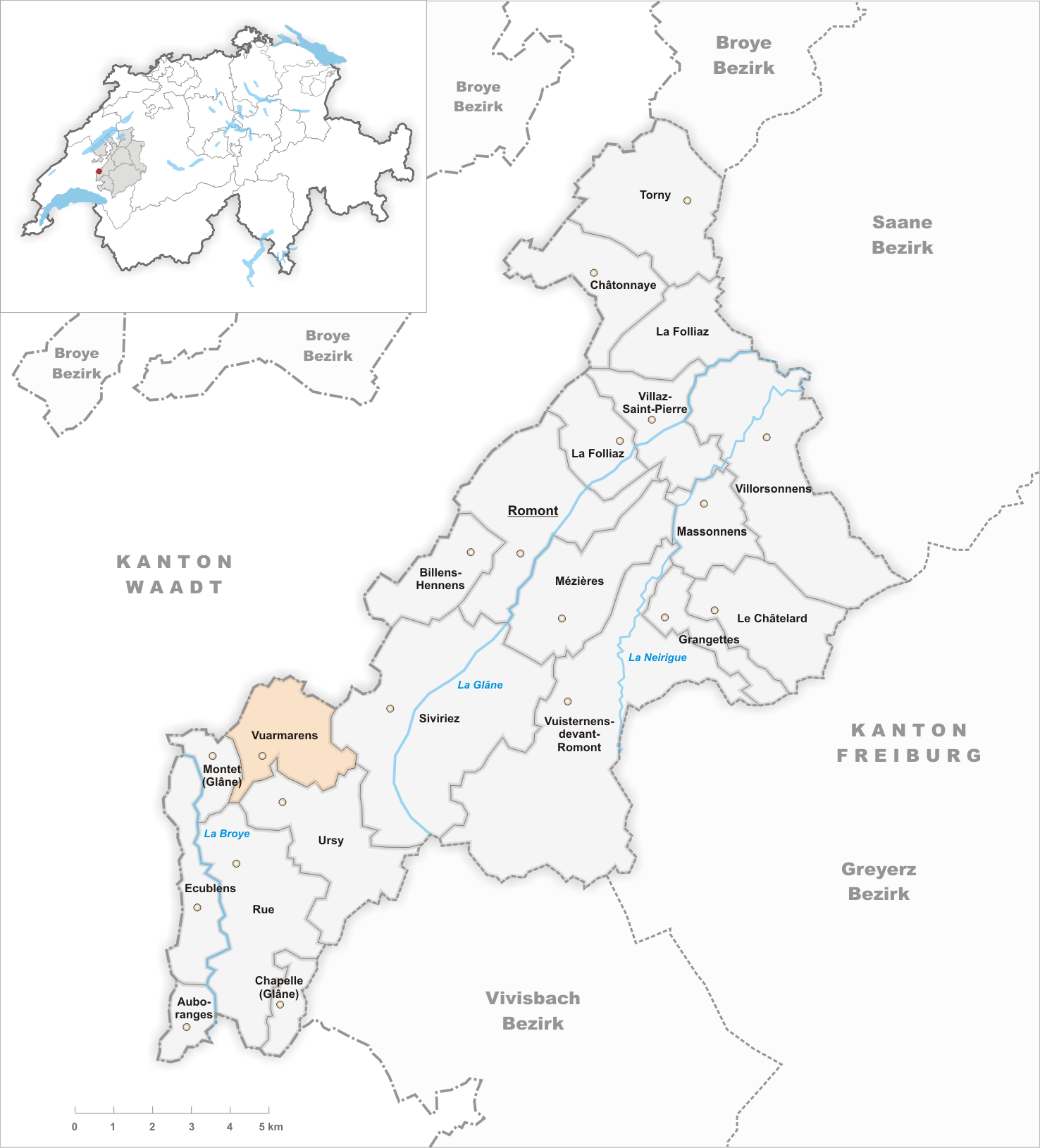 Municipality Vuarmarens